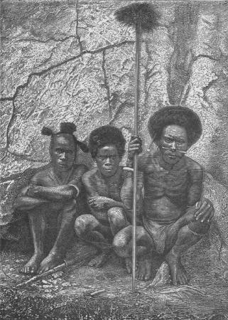 A group of Papuans.